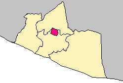 Locator image of Yogyakarta City in Yogyakarta Special Region Province, Indonesia